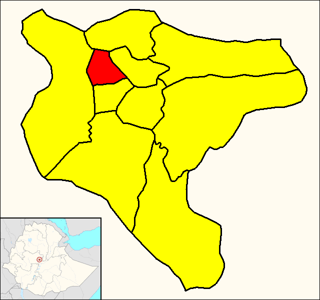 Map of the district (subcity) of Addis Ketema (shown in red) within the city of Addis Ababa (yellow).